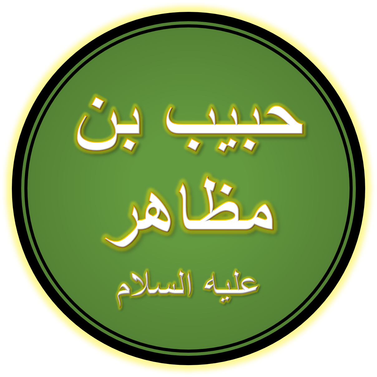 Arabic text of the name of Habib ibn Mudahir (A.S.)